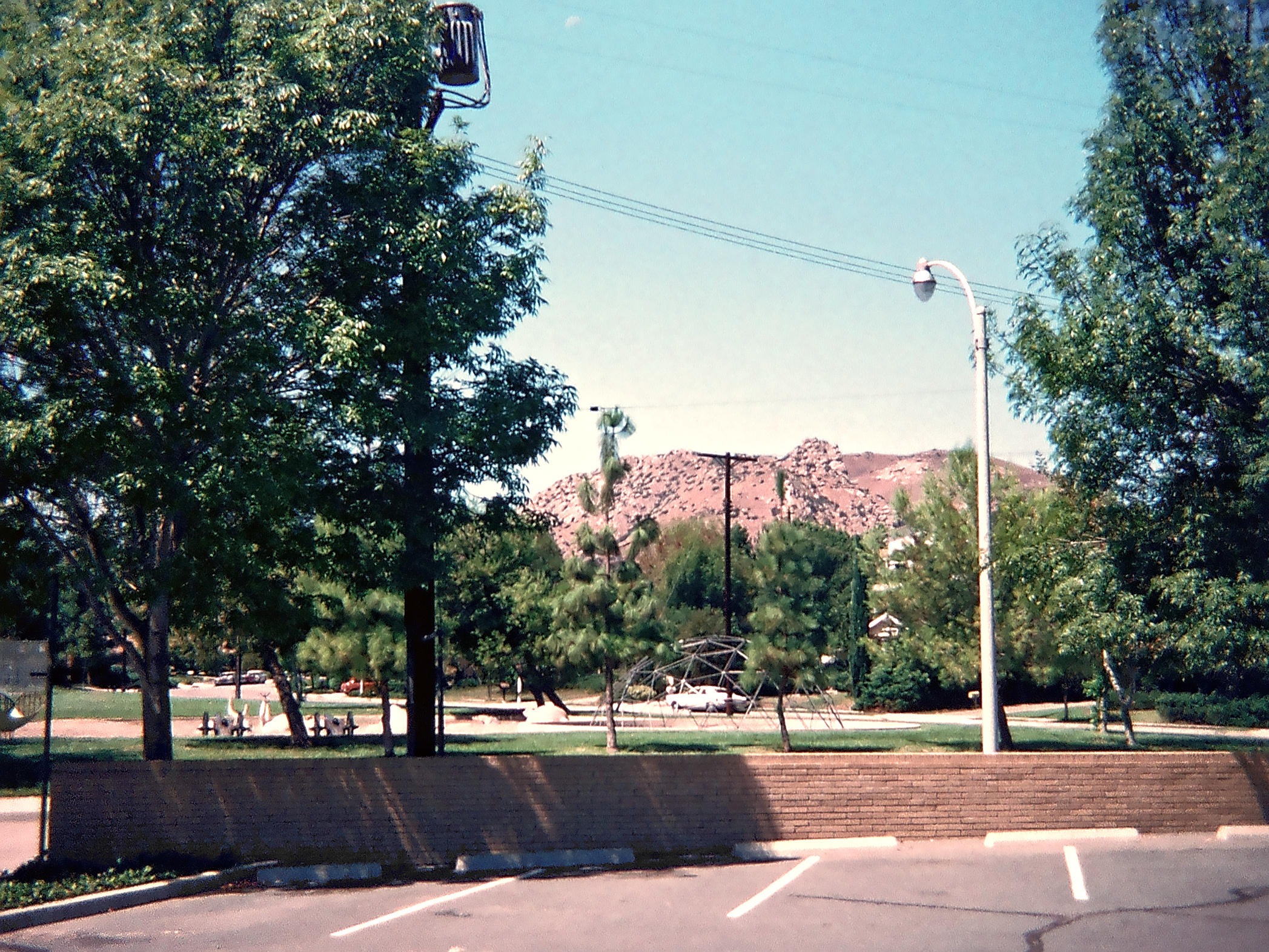 View of Mae Boyar Recreation Center, and Castle Peak—Escorpión Peak in the Simi Hills. Located in West Hills, of the western San Fernando Valley, in the city of Los Angeles. View to west from Highlander Road Elementary School, in 1978.